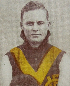 Photograph of Fred Barker from 1927-1929